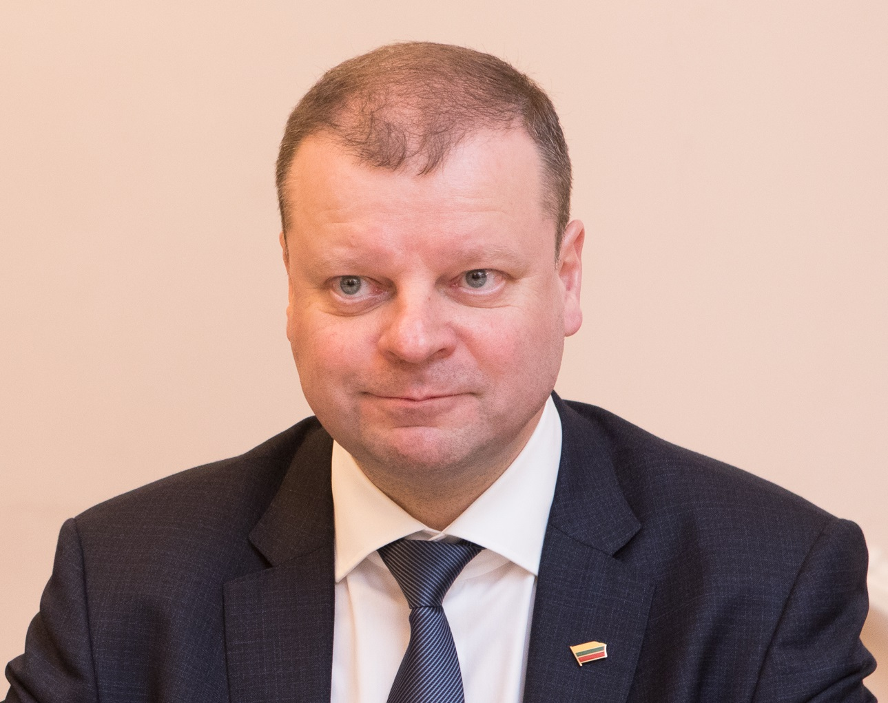 Prime Minister of Lithuania Saulius Skvernelis